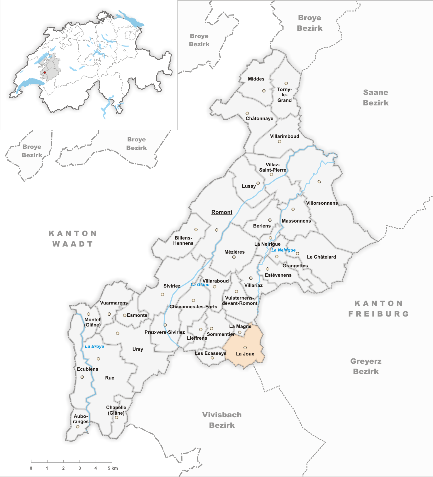 Municipality La Joux Artist: Tschubby